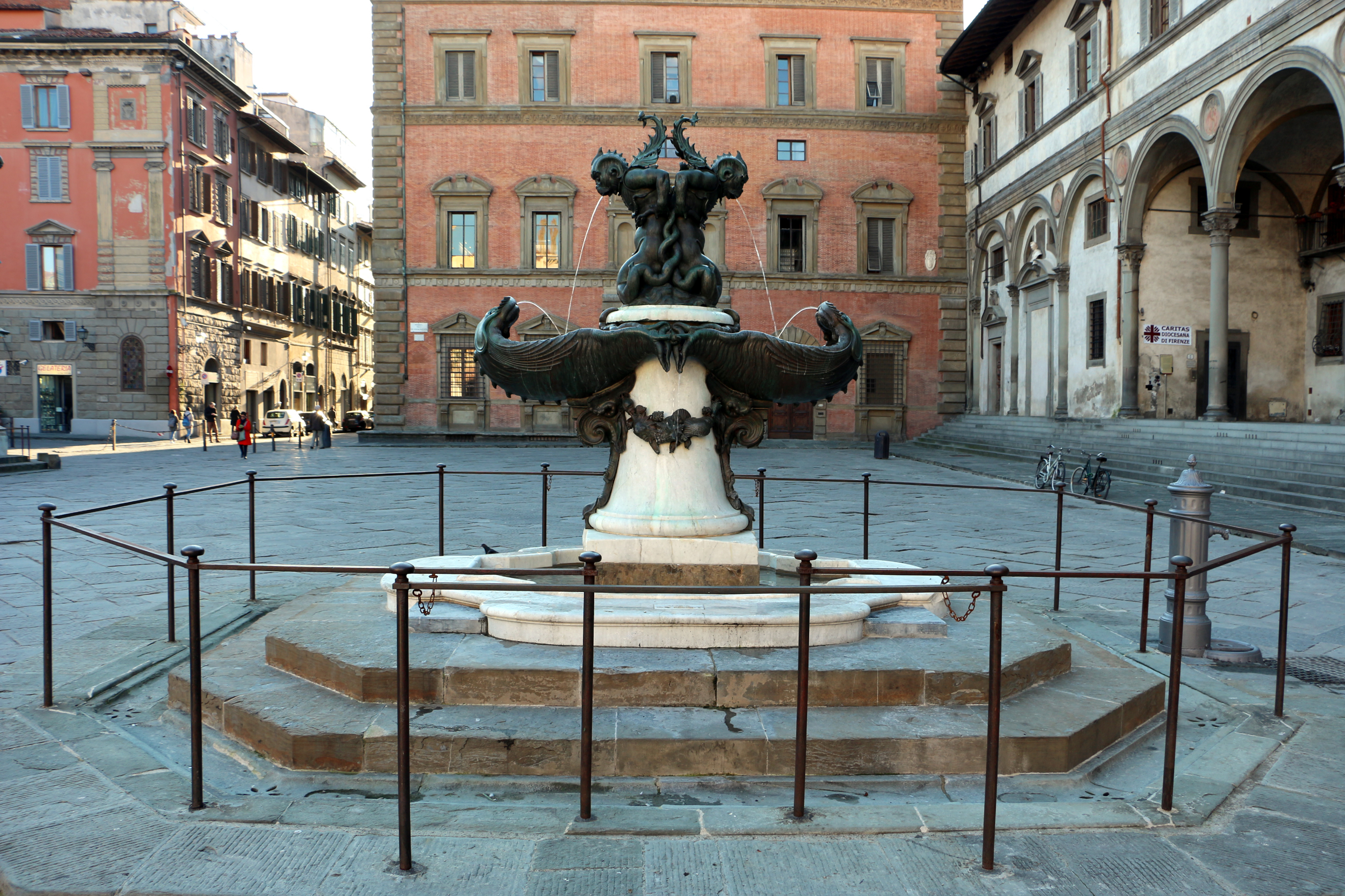 Sea monsters fountains (Florence) - West fountain